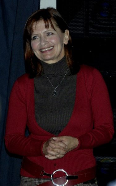 Czech actress Ljuba Krbová suported inception of hospice in Liberec Region by discuss evening.